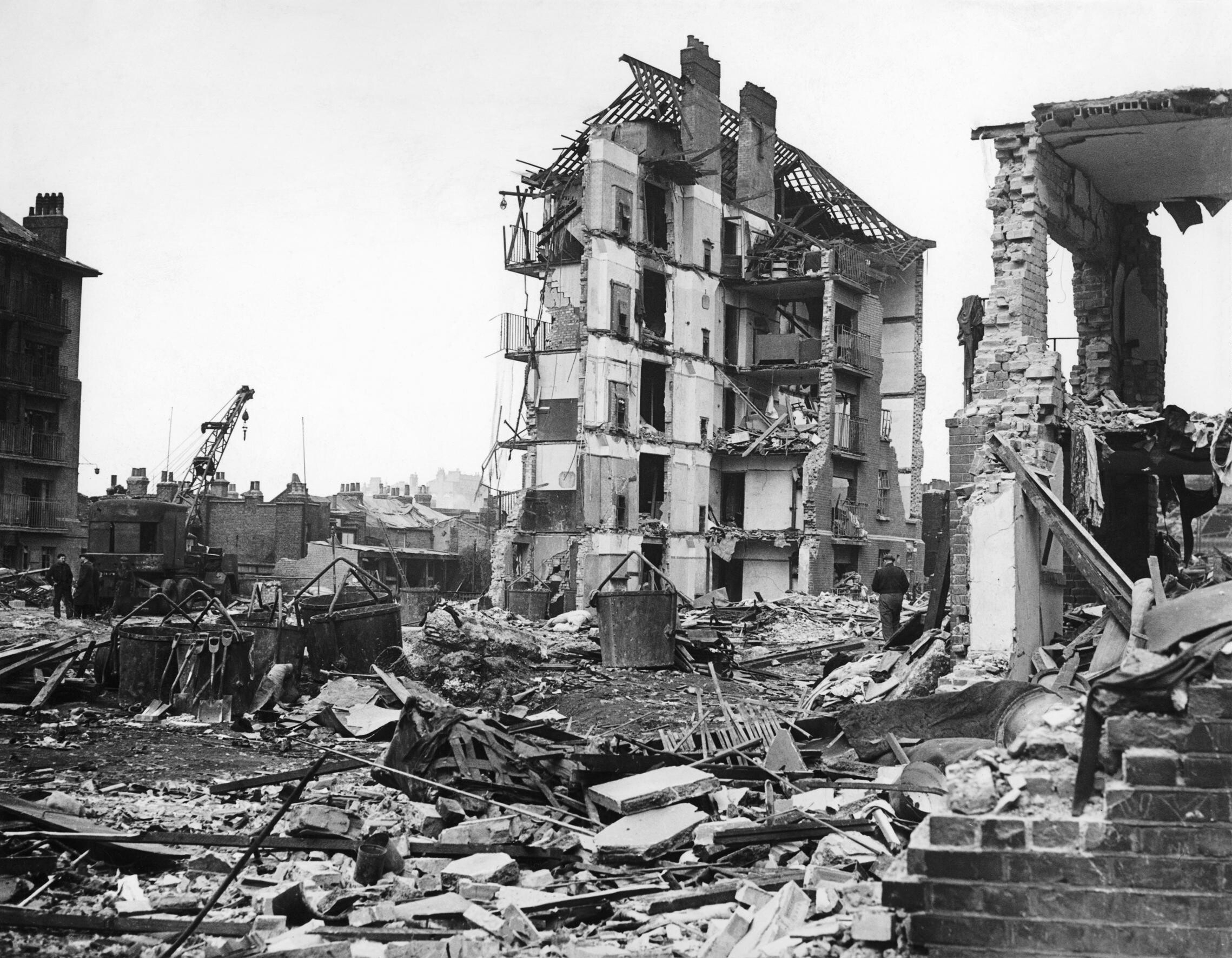 Damage Caused by V2 Rocket Attacks in Britain, 1945 Ruined flats in Limehouse, East London. Hughes Mansions, Vallance Road, following the explosion of the last German V2 rocket to fall on London, 27 March 1945.